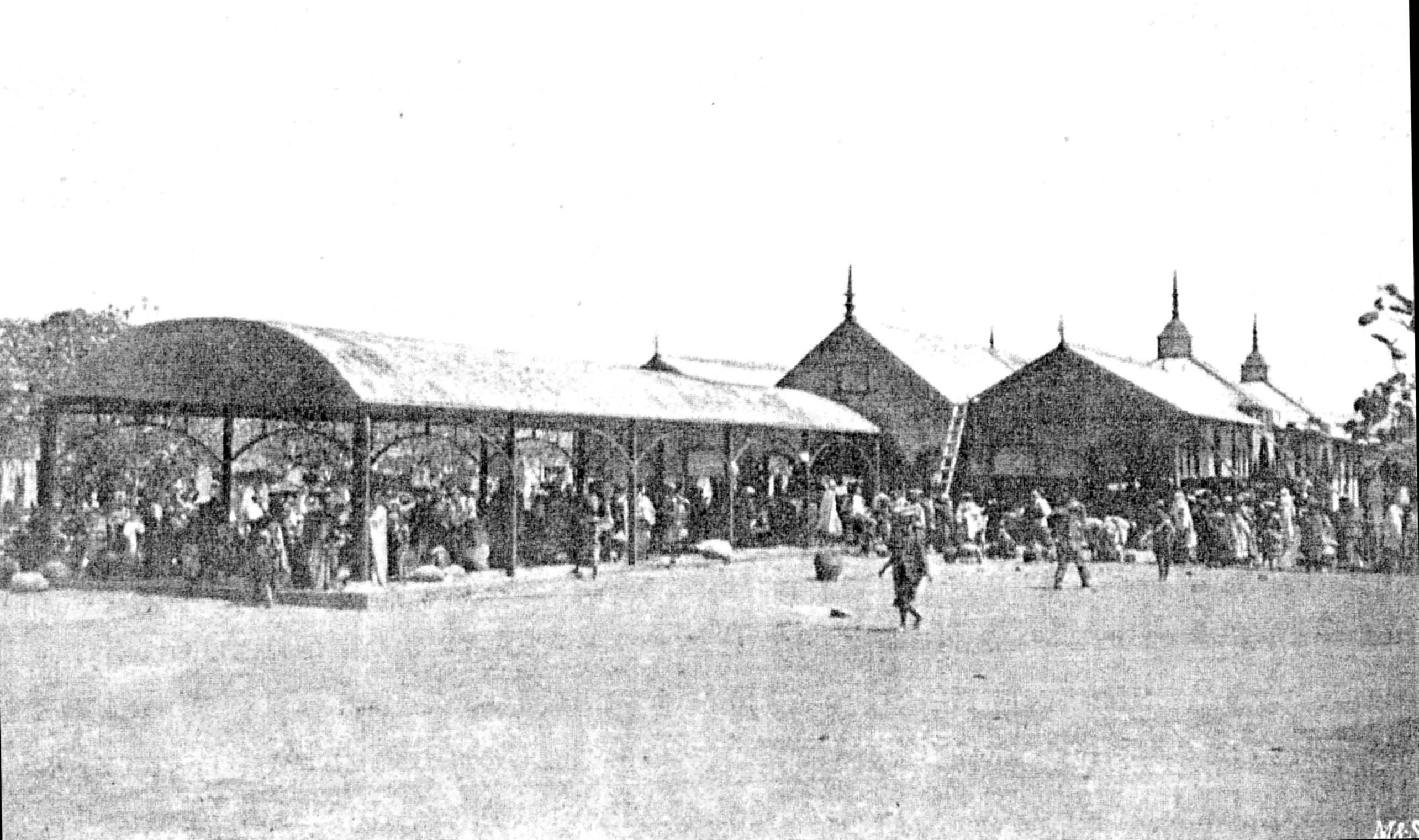 The market hall in Accra, 1903 (Ghana)